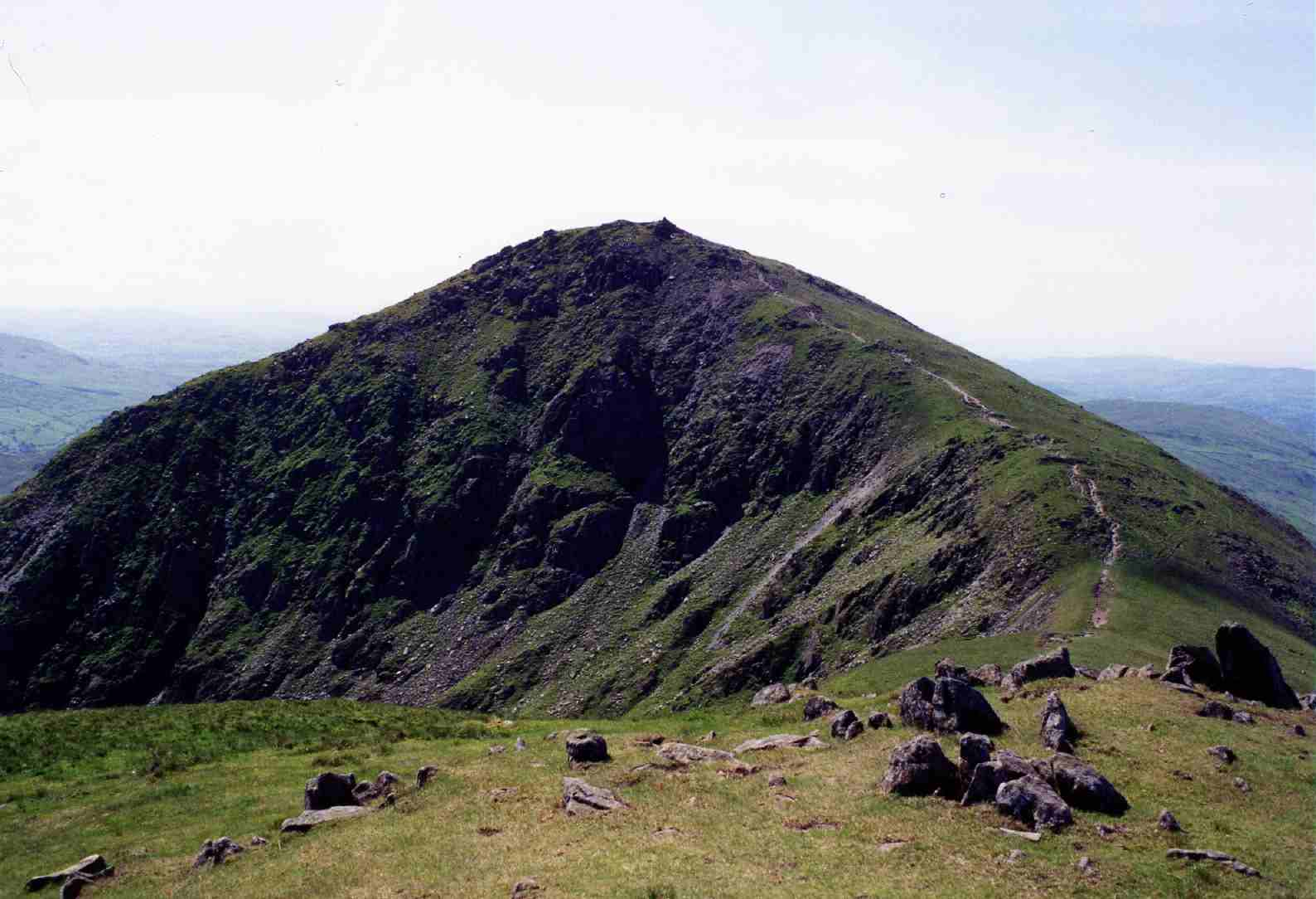 Personal photograph taken by Mick Knapton